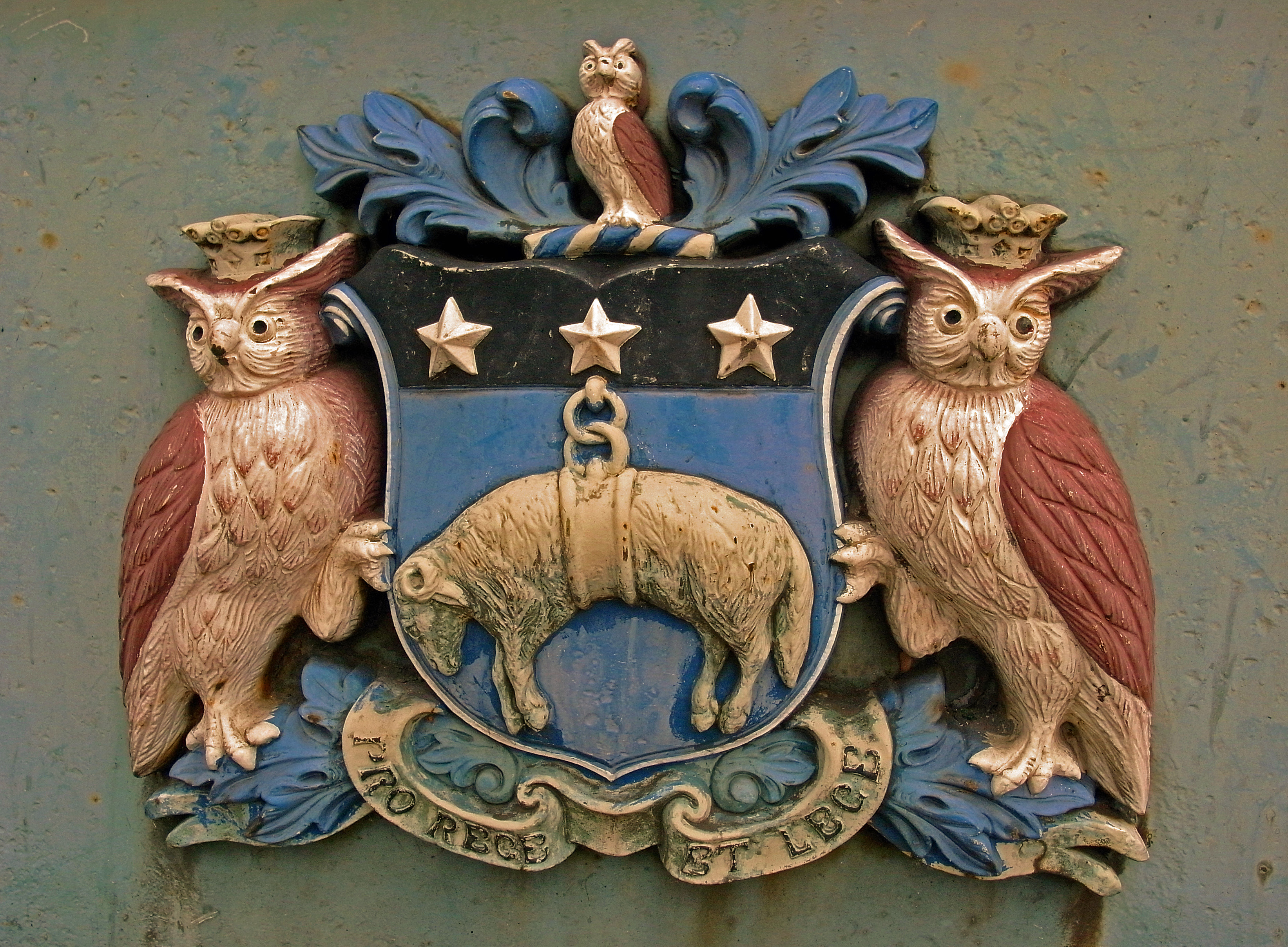 Coat of arms on Leeds Bridge, an 1870 cast iron bridge over the River Aire in Leeds, England.